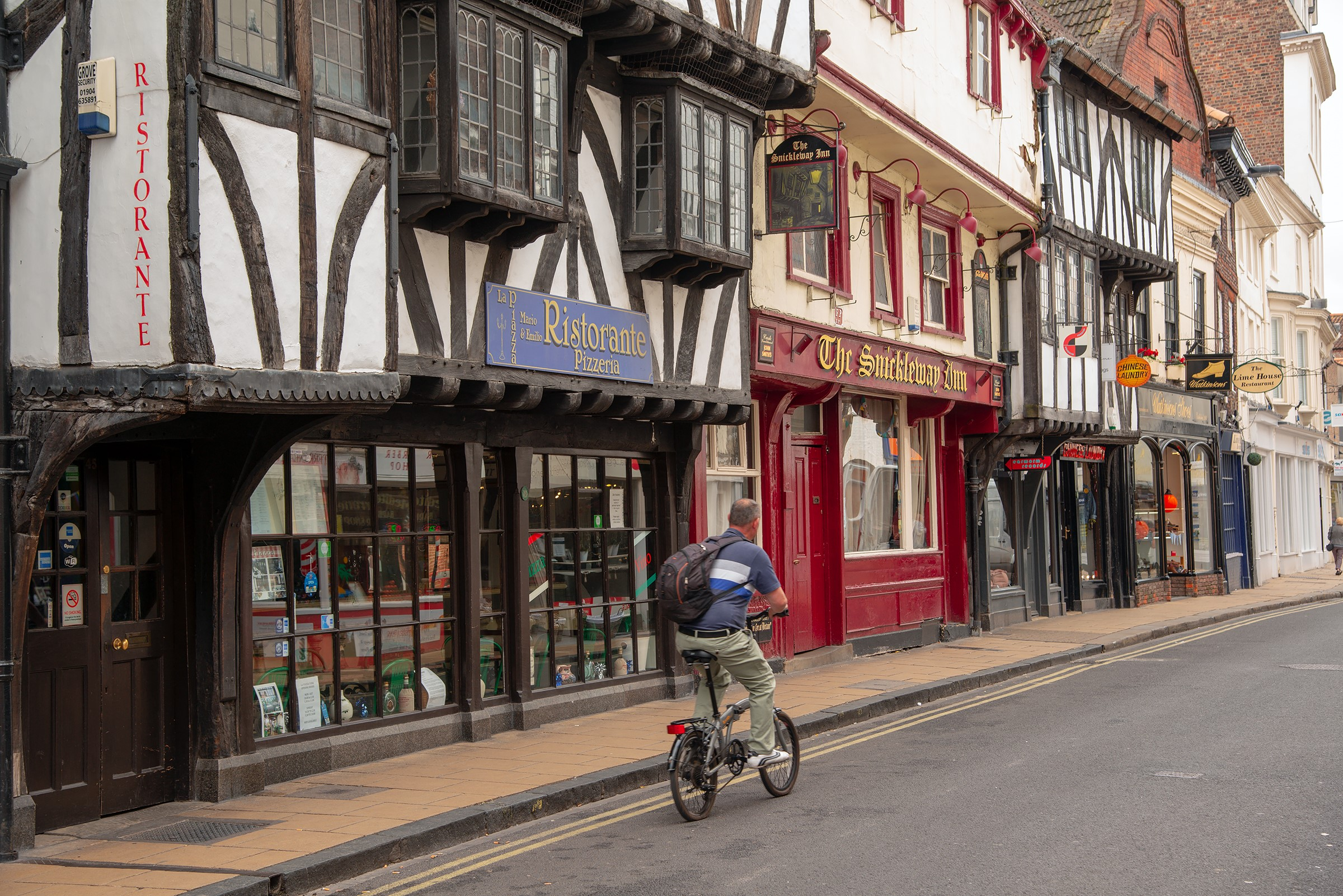 47 Goodramgate, York, Snickleway Inn